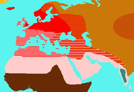 map of the distribution of human races by Thomas Huxley, roughly drawn by me from On the Geographical Distribution of the Chief Modifications of Mankind, Journal of the Ethnological Society of London (1870) [1] 2: Negroes 4: Melanochroi 5: Australoids 6: Xanthochroi 8: Mongoloids A 8: Mongoloids B 9: Esquimaux